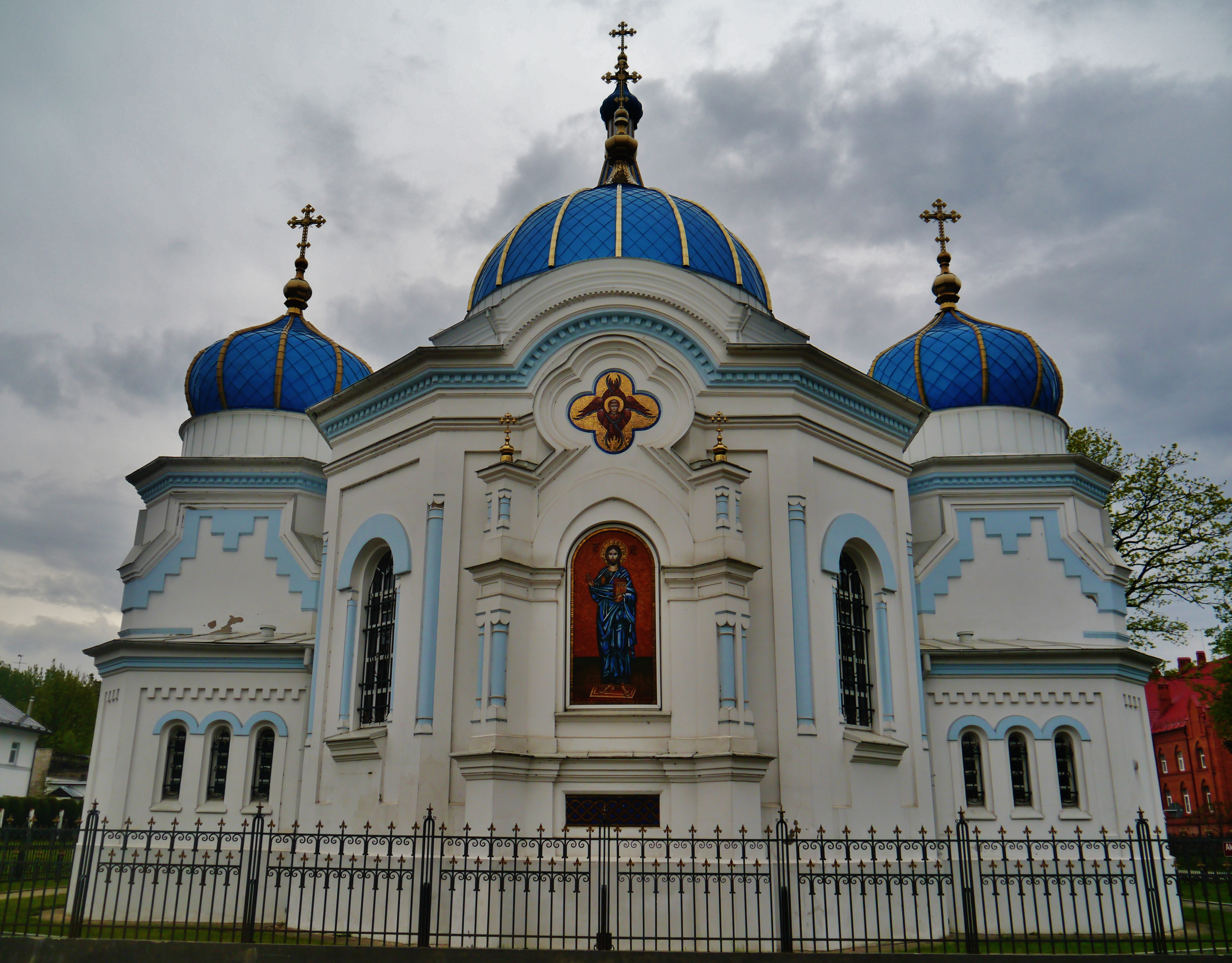 Choir of the Russian Orthodox Cathedral Sts. Anne & Simeon, Jelgava, Latvia